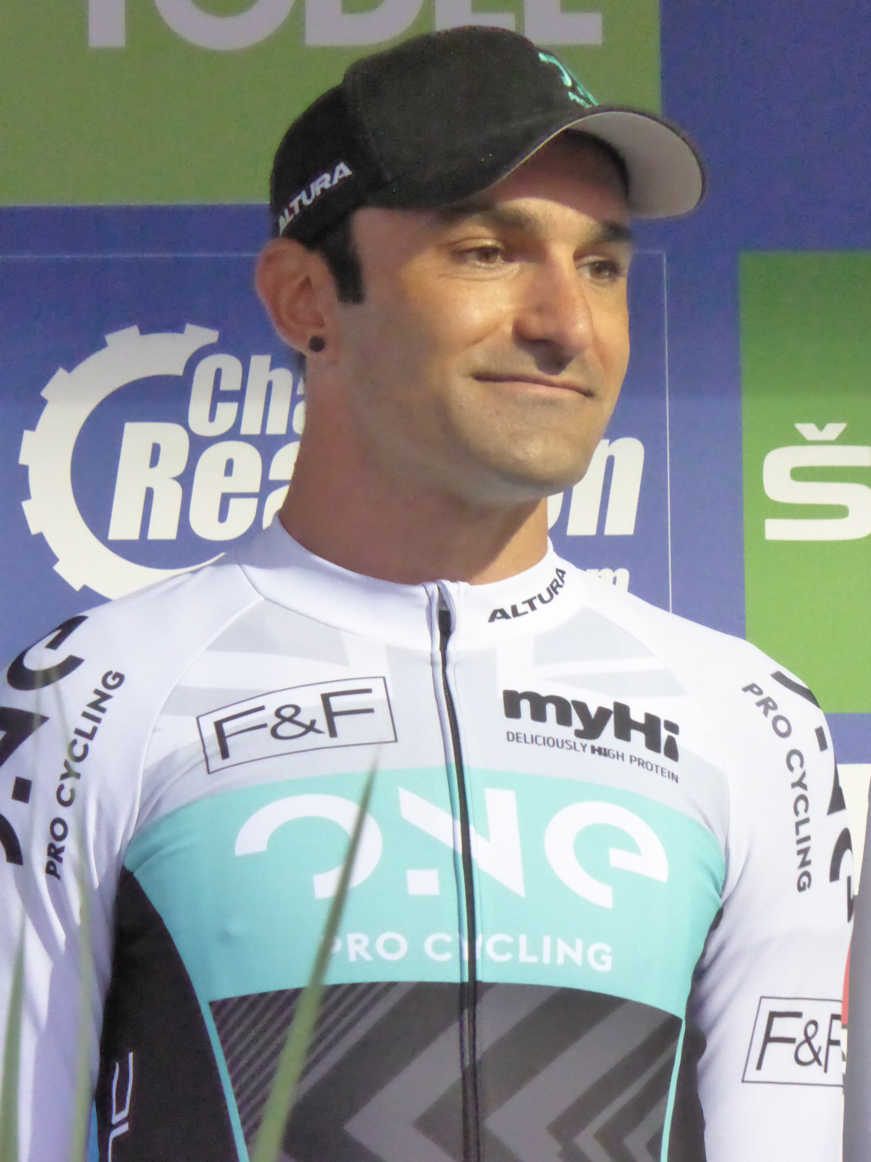 Kristian House (ONE Pro Cycling), pictured at the 2016 Tour of Britain team presentation in Glasgow on 3 September 2016.